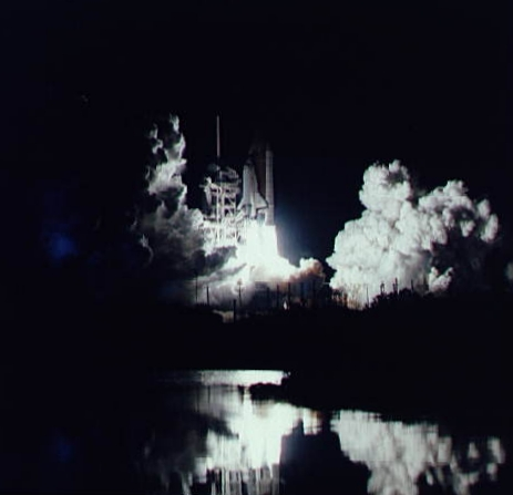 Space Shuttle Discovery launches on STS-63